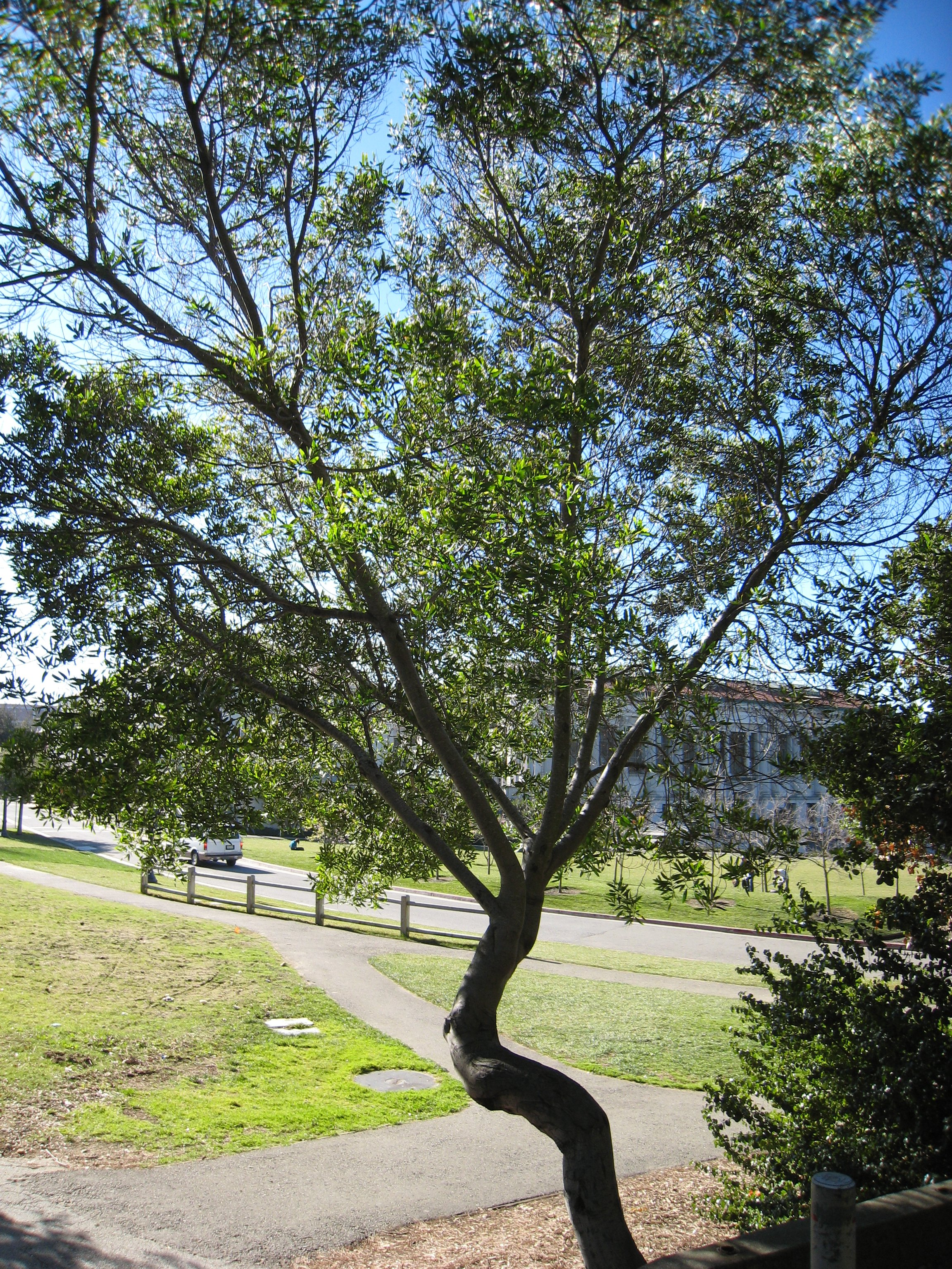 Acacia longifolia (Sydney Golden Wattle)